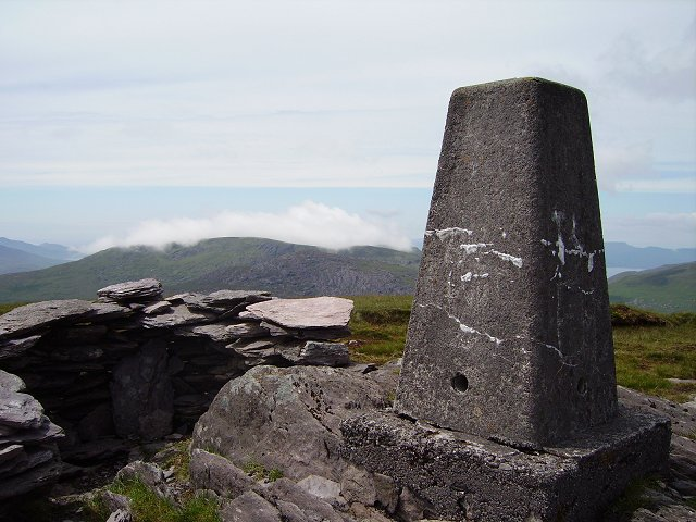 Cnoc Daod / Hungry Hill. The summit with triangulation pillar.